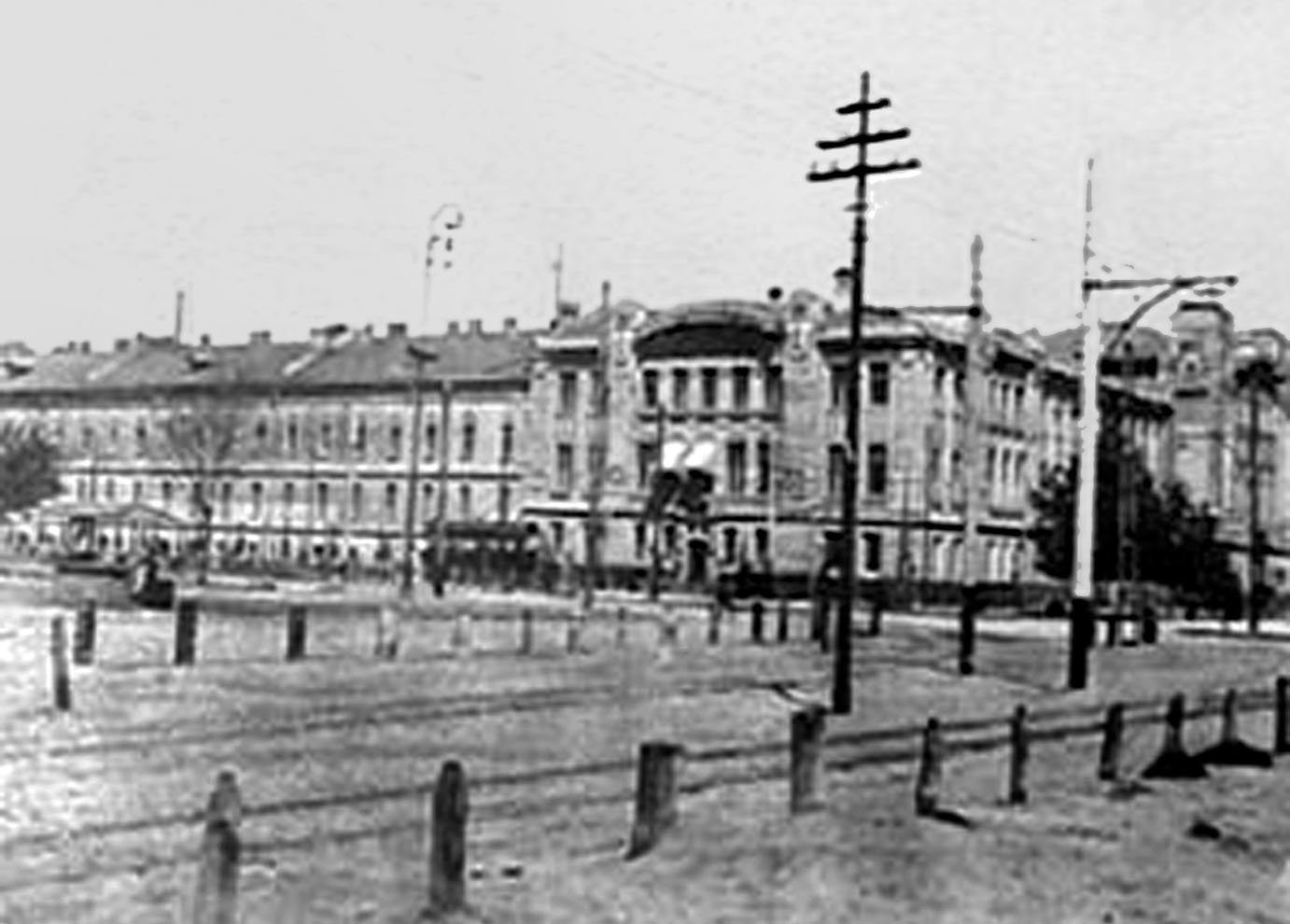 Building of the Ekaterinoslav Railway Administration (now Dnipro city, Ukraine). Photo taken in 1905.